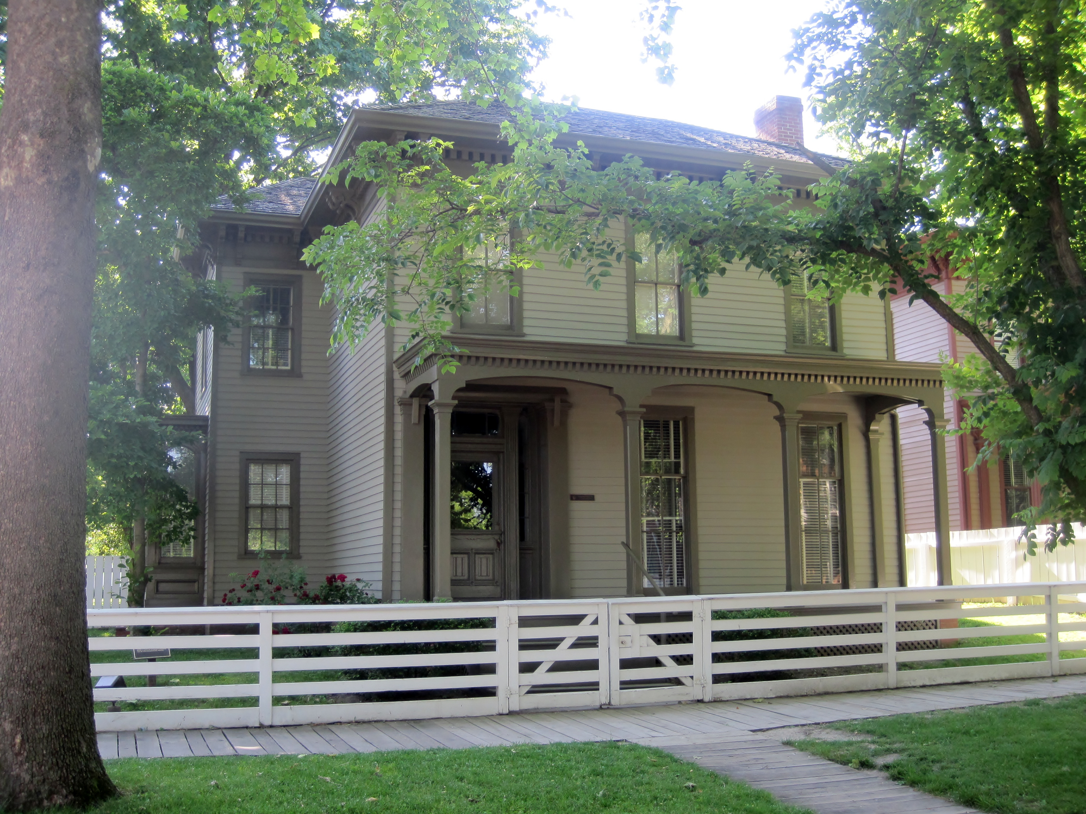 The Lyon House at the Lincoln Home National Historic Site (c. 1855). It was rented to Henson Lyon, who owned a farm two-and-a-half miles east of Springfield. In 1868, it was purchased by Samuel Rosenwald, the father of Julius Rosenwald (part-owner of Sears, Roebuck & Co., founder of the Rosenwald fund, and founder of the Museum of Science & Industry in Chicago).